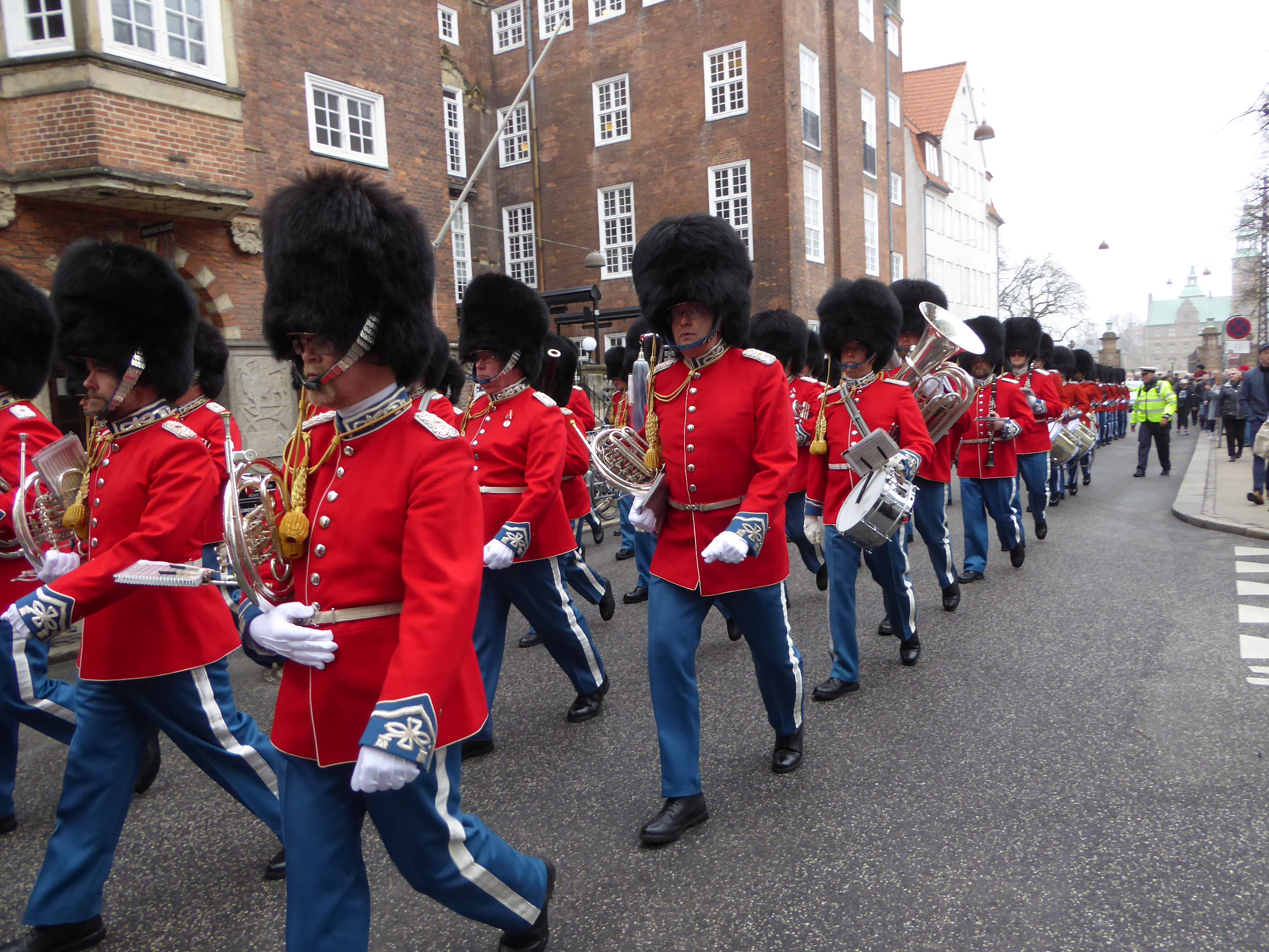 Den Kongelige Livgarde (the Royal Guard of Denmark) on Rosenborggade in Copenhagen. The guards are in galla uniforms since it's Queen Margrethe II's 78 years birthday.